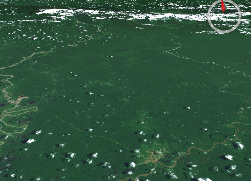 NASA World Wind image of Kiunga, including Tabubil, The Fly River, the Ok Tedi River, Ninggerum station and the Kiunga-Tabubil Highway